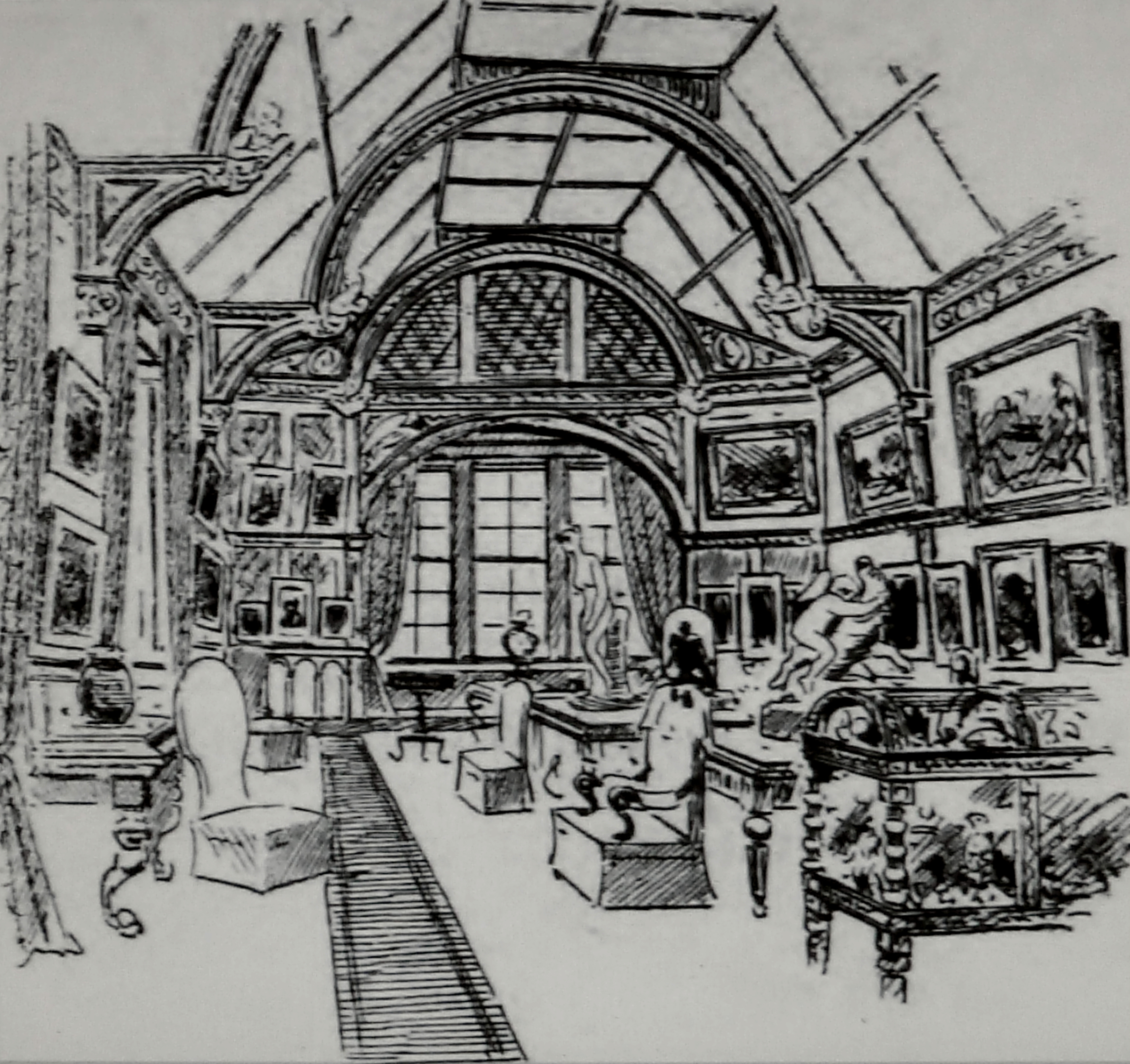 A drawing of the art gallery inside Hospitalfield House, where sculptor John Hutchison executed some or all of theinterior wood carving when he was 20 years old. He was a trustee of this institution when the picture was drawn.